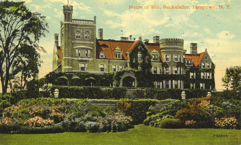 William Rockefeller home in Tarrytown, NY